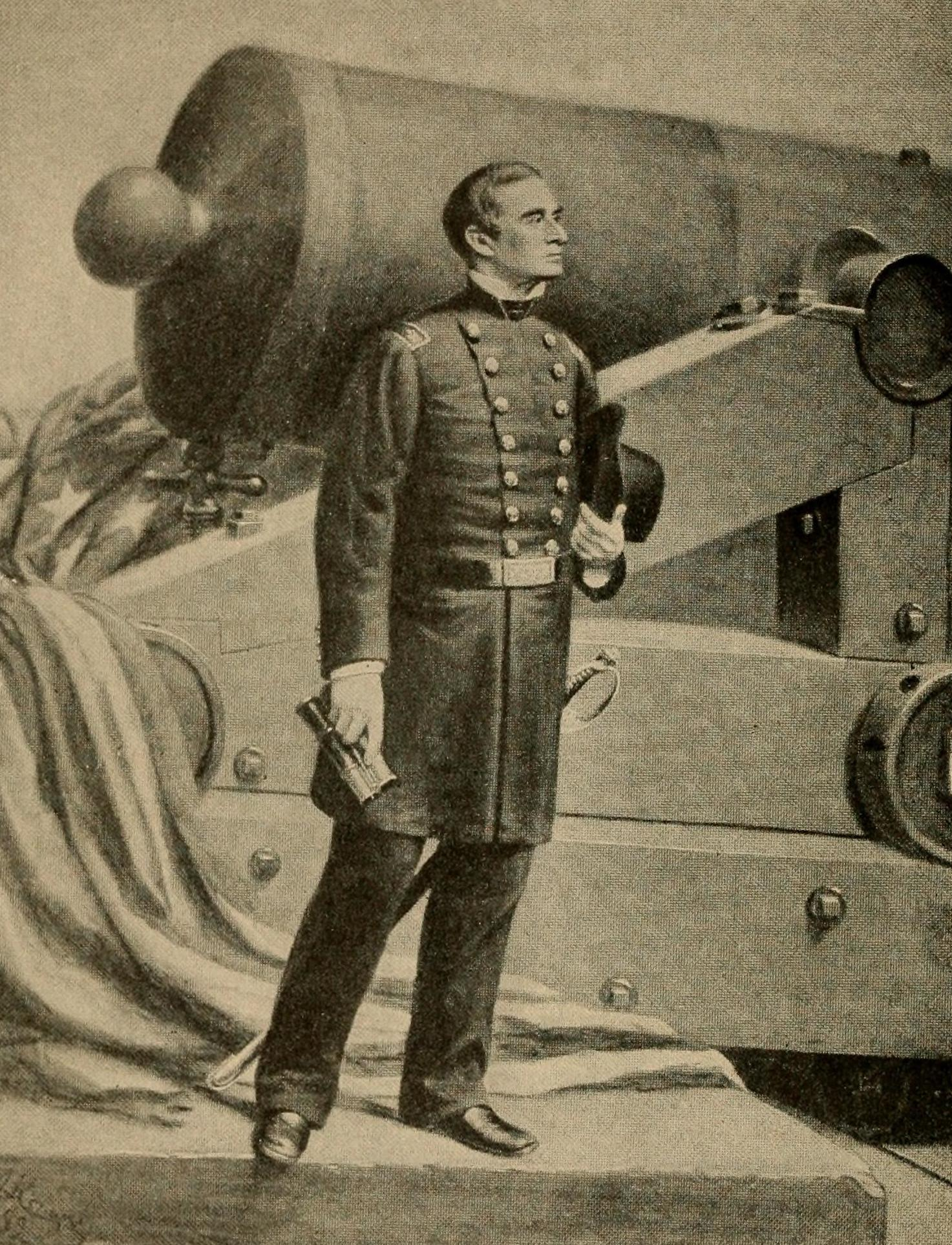 Title: Major Robert Anderson and Fort Sumter, 1861 Year: 1911 (1910s) Authors: Lawton, Eba Anderson, d. 1919 Subjects: Anderson, Robert, 1805-1871 Publisher: New York, The Knickerbocker press Text Appearing Before Image: ' Text Appearing After Image: '